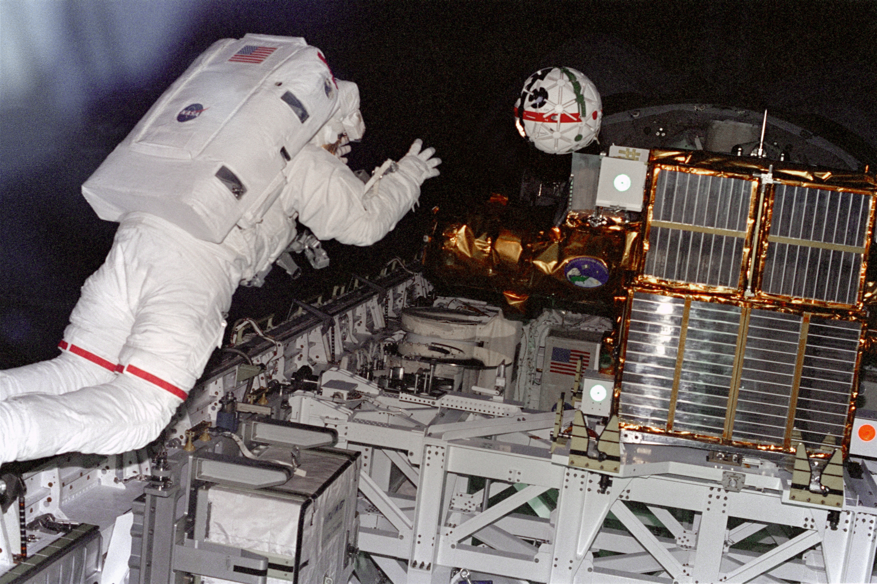 Looking like he's playing with a high tech "soccerball", STS-87 Mission Specialist Winston Scott reaches out and retrieves the free-flying AERCam/Sprint (Autonomous EVA Robotic Camera).